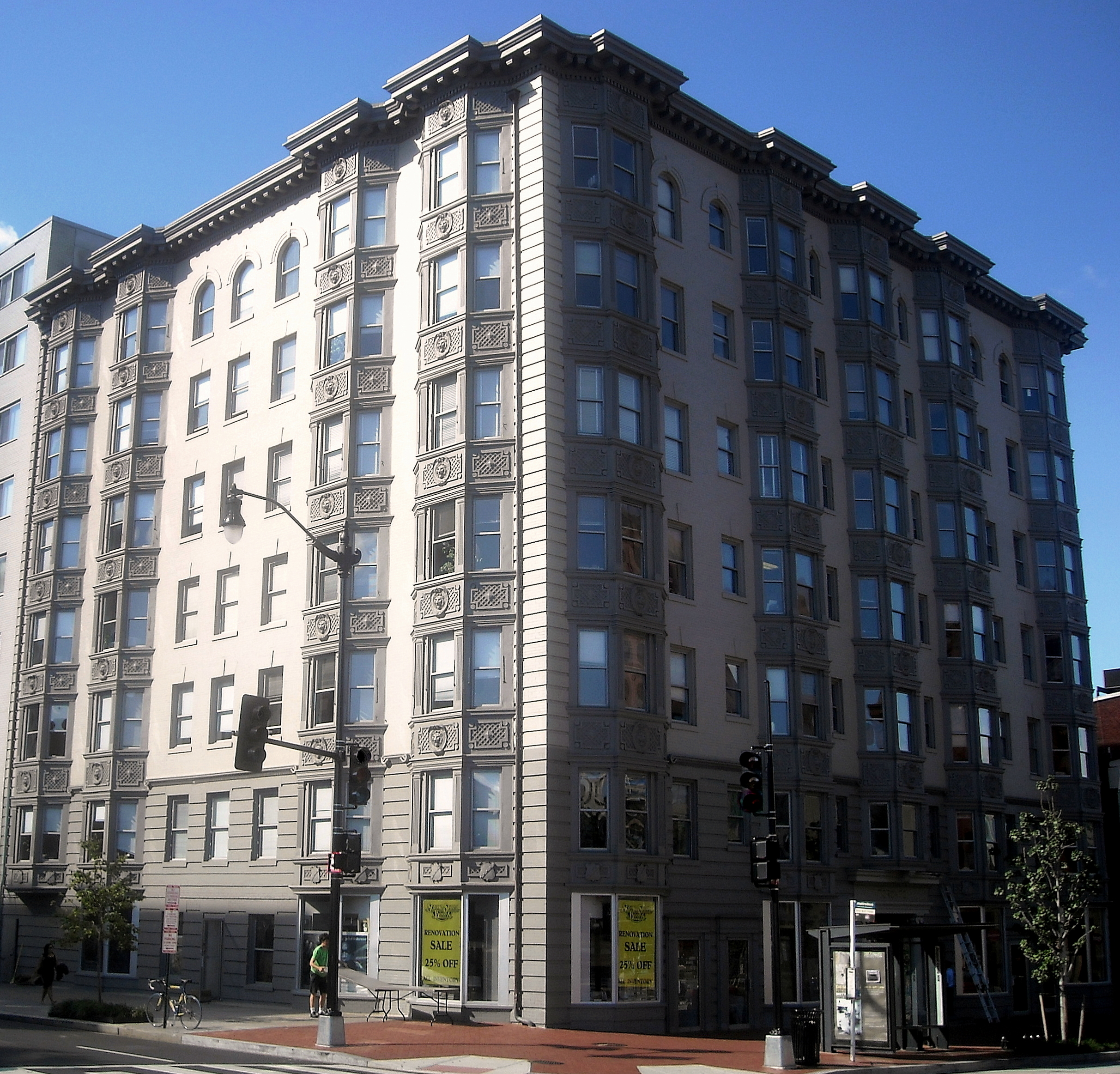 The Toronto, also known as the Headquarters Building, located at 2000 P Street, NW in the Dupont Circle neighborhood of Washington, D.C. Designed by Albert Beers in 1908, the Beaux-Arts Toronto originally served as an apartment building. It's a contributing property to the Dupont Circle Historic District and is currently used for commercial purposes. The current owner of the Toronto is RB Properties, Inc.